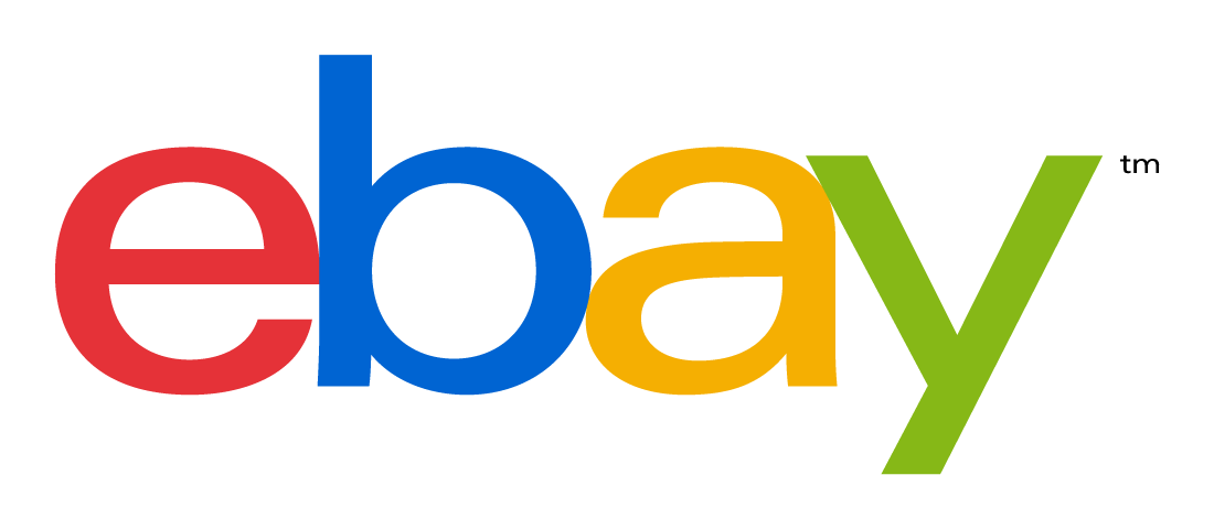 eBay logo since October 2012.